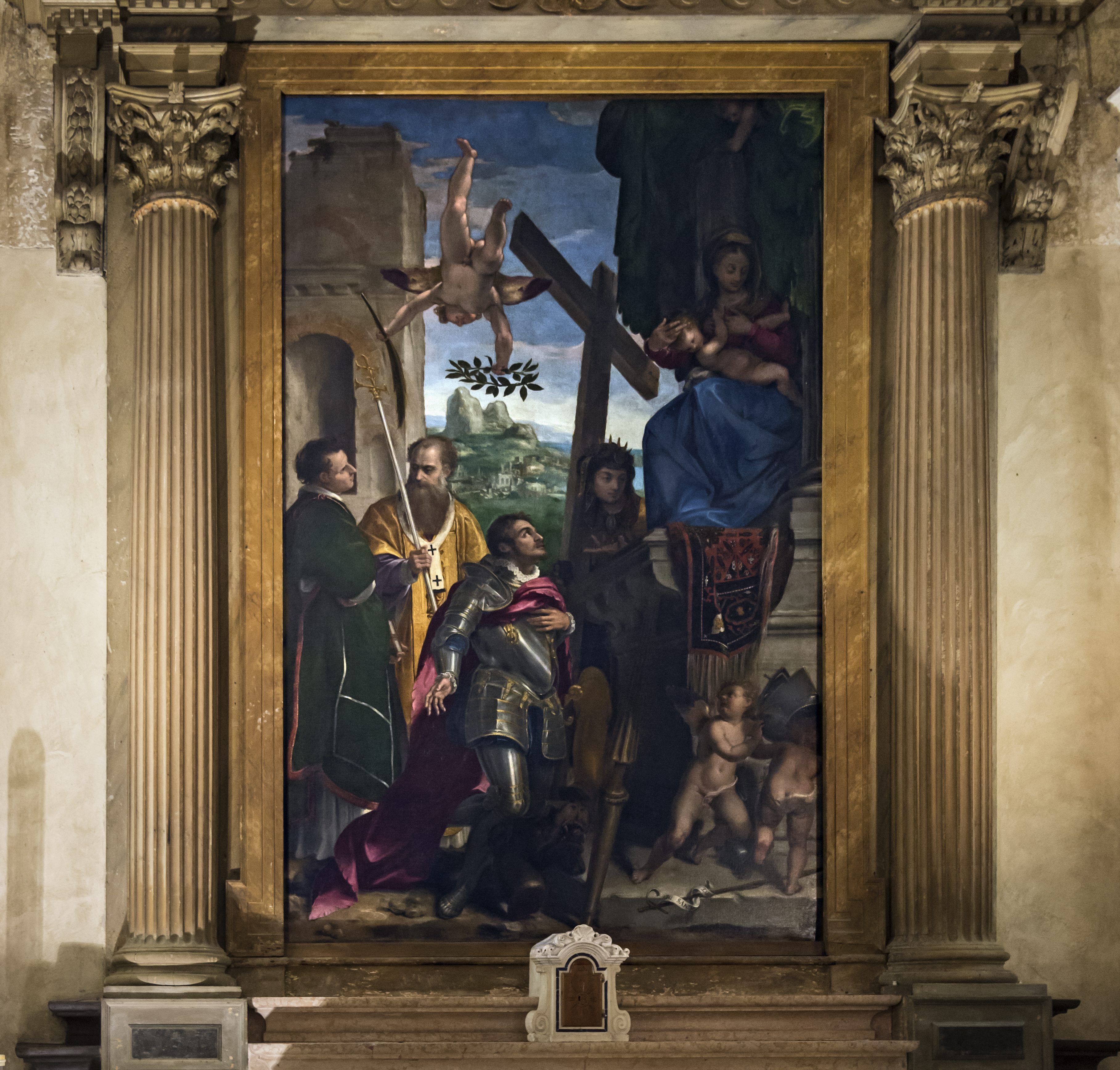 Church of Sant'Elena complex of Verona's Cathedral - Oil on canvas by Giovanni Caroto Madonna col Bambino in trono, i Santi Martino e Stefano ed un committente (1514).